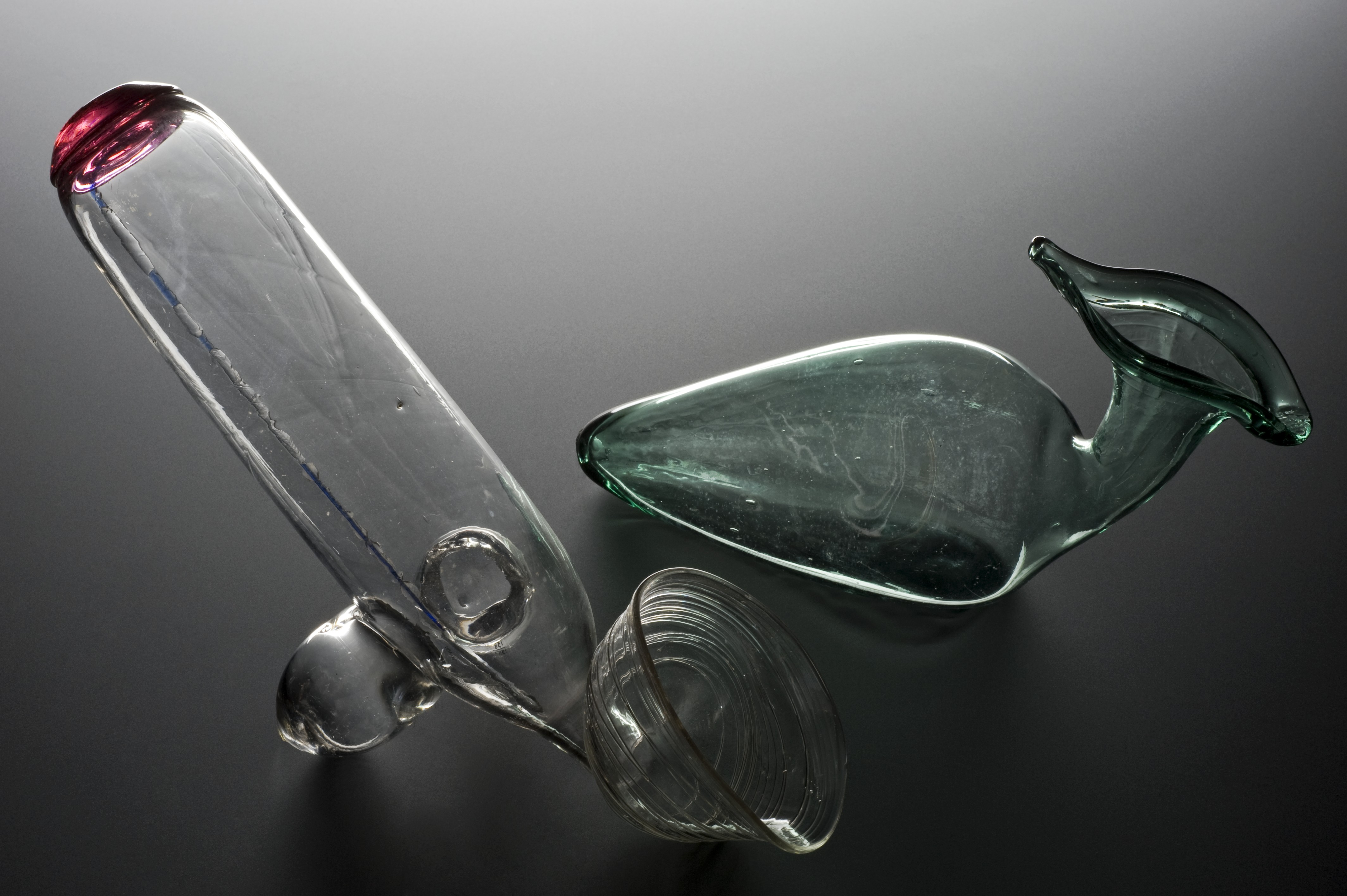 This is one of a pair of explicitly shaped female urinals and was designed to resemble an erect penis with testicles. Little is known about the origins of this particular example, but such portable urinals would have been owned by wealthy women at a time when few hygienic toilet facilities would have been available outside of the home. They were particularly useful on long coach journeys. It is shown here with another example of a female urinal (A95362). maker: Unknown maker Place made: Europe Wellcome Images Keywords: Hygiene; urinal